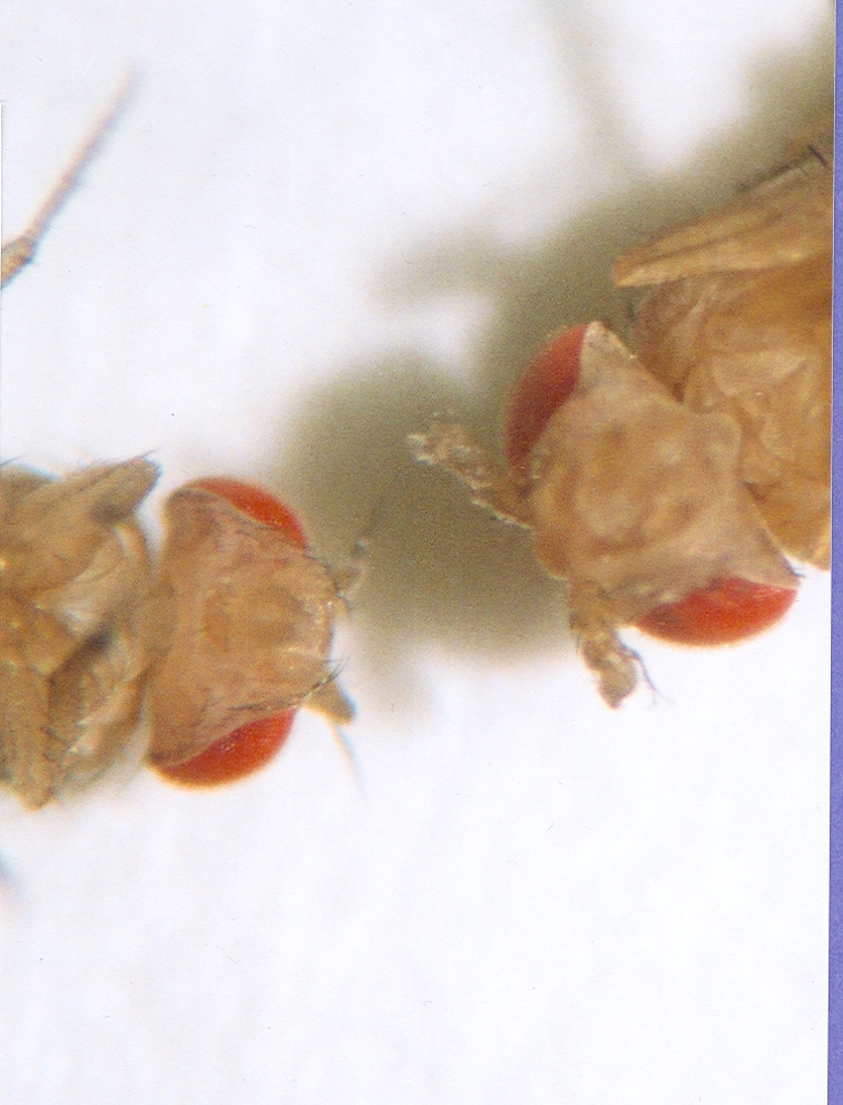 A wild fruit fly compared with a fruit fly with the antennapedia mutation.